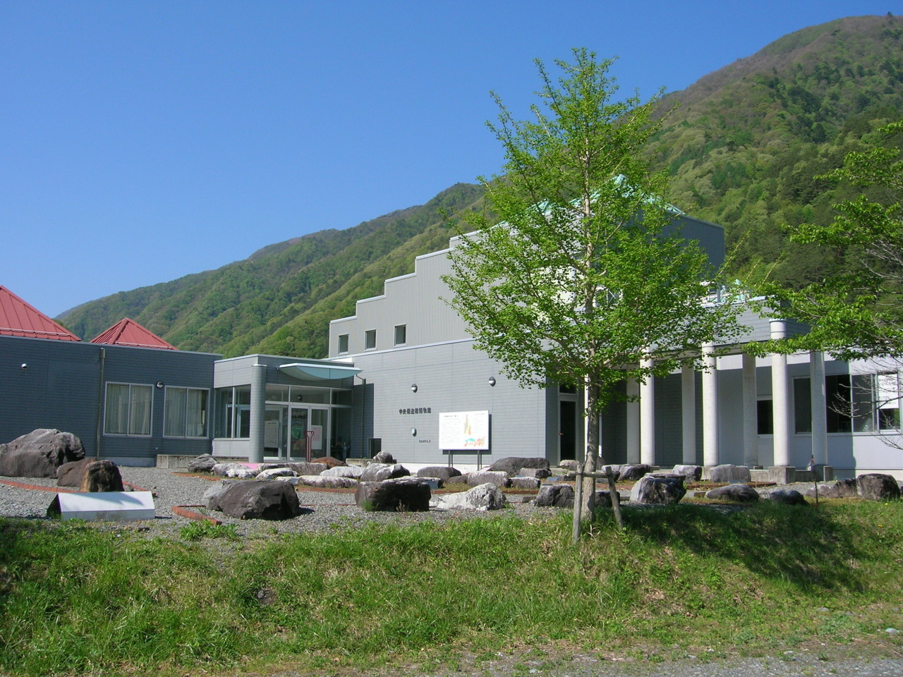 Chuou Kouzousen Hakubutsukan. (Median Tectonic Line Museum.) Loc: Ōshika, Nagano Prefecture, Japan 中央構造線博物館 撮影場所 長野県下伊那郡大鹿村